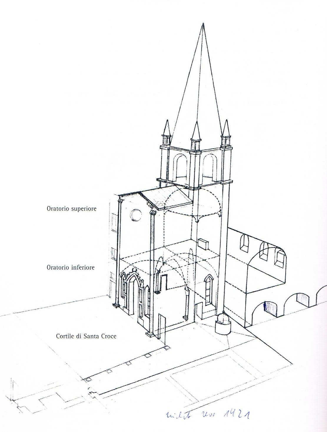 chapel of Eleonora Gonzaga in Palazzo Mantova, reconstruction